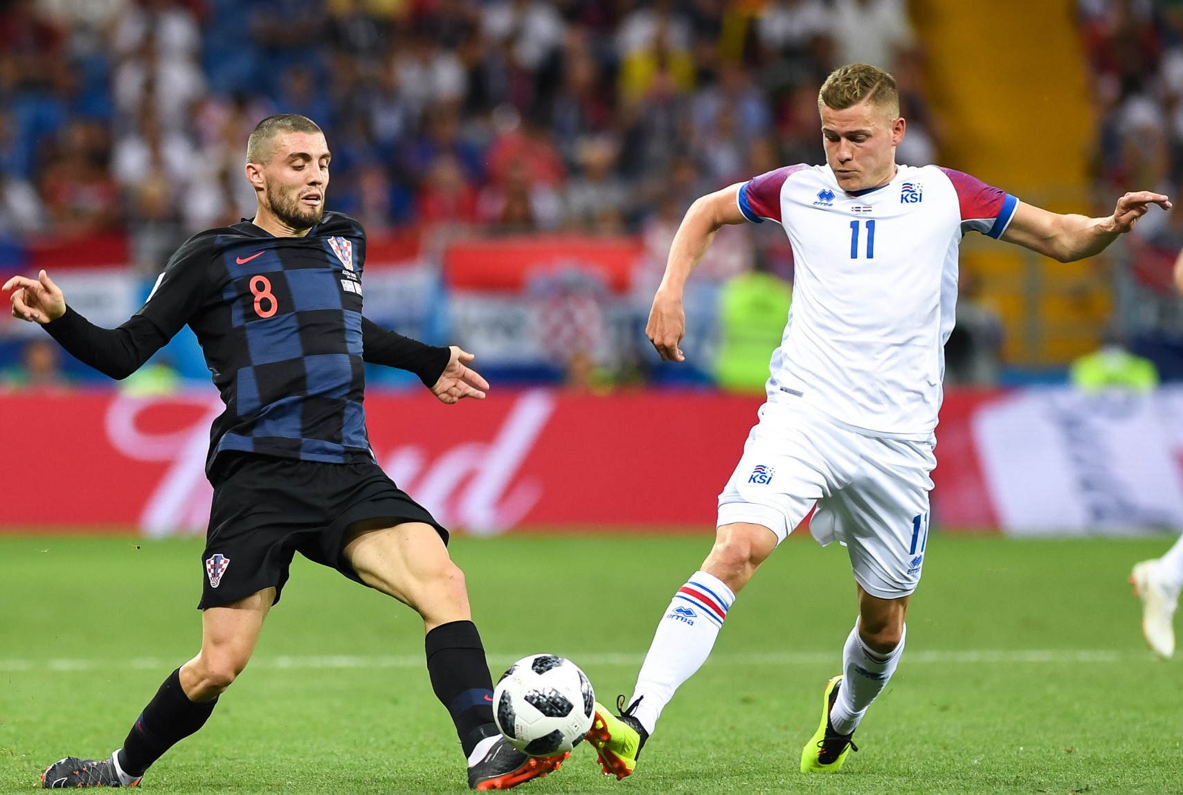 Mateo Kovačić